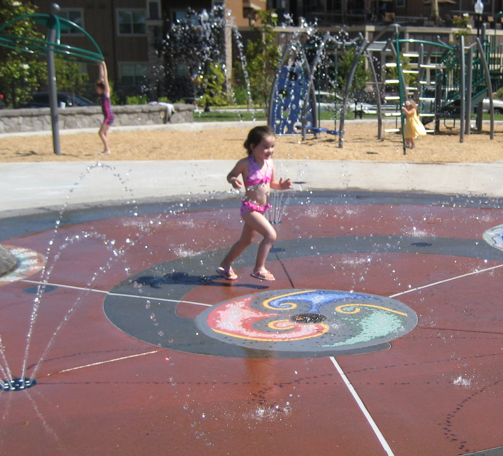 Magnolia Park in Hillsboro, Oregon.